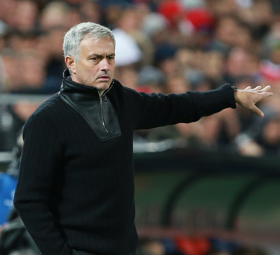 José Mourinho